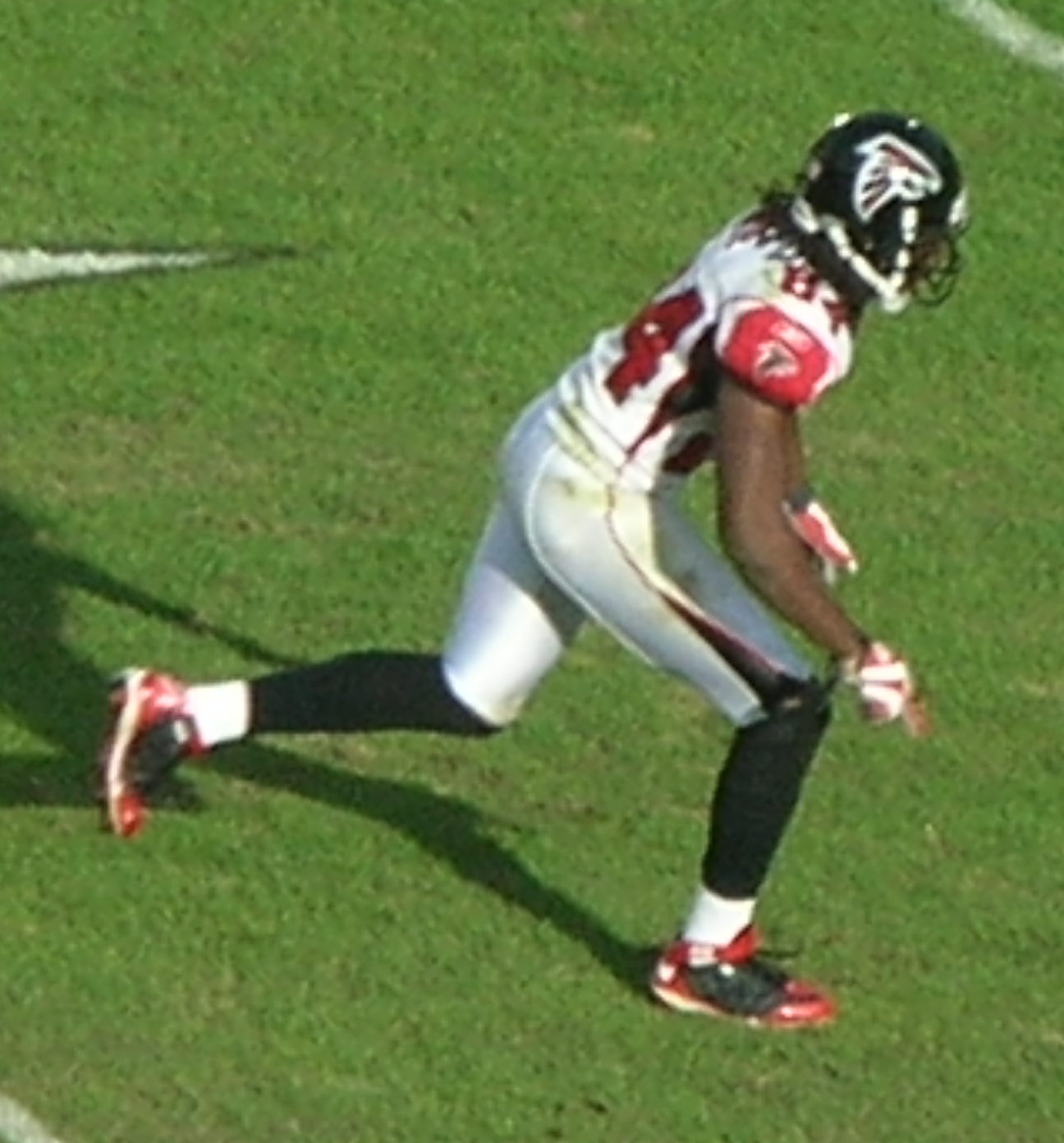 Atlanta Falcons wide receiver Roddy White at a road game against the Oakland Raiders. The Falcons won 24-0.